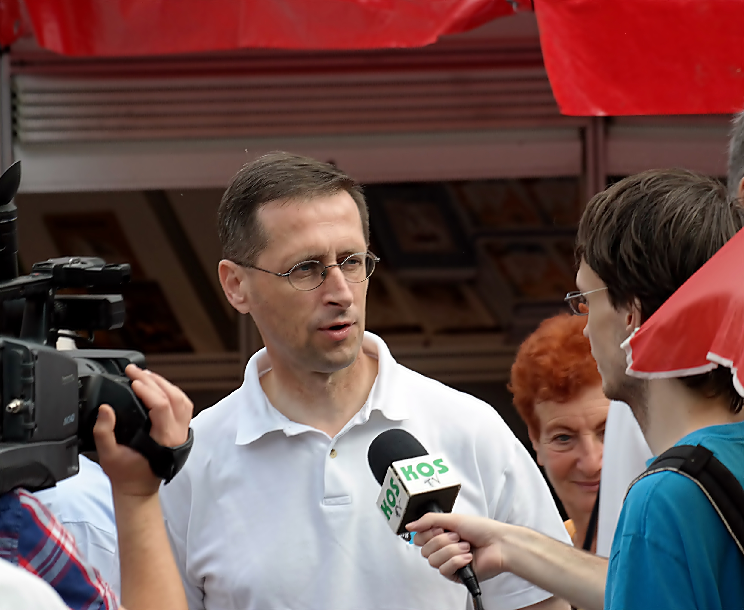 Mihály Varga (politician)